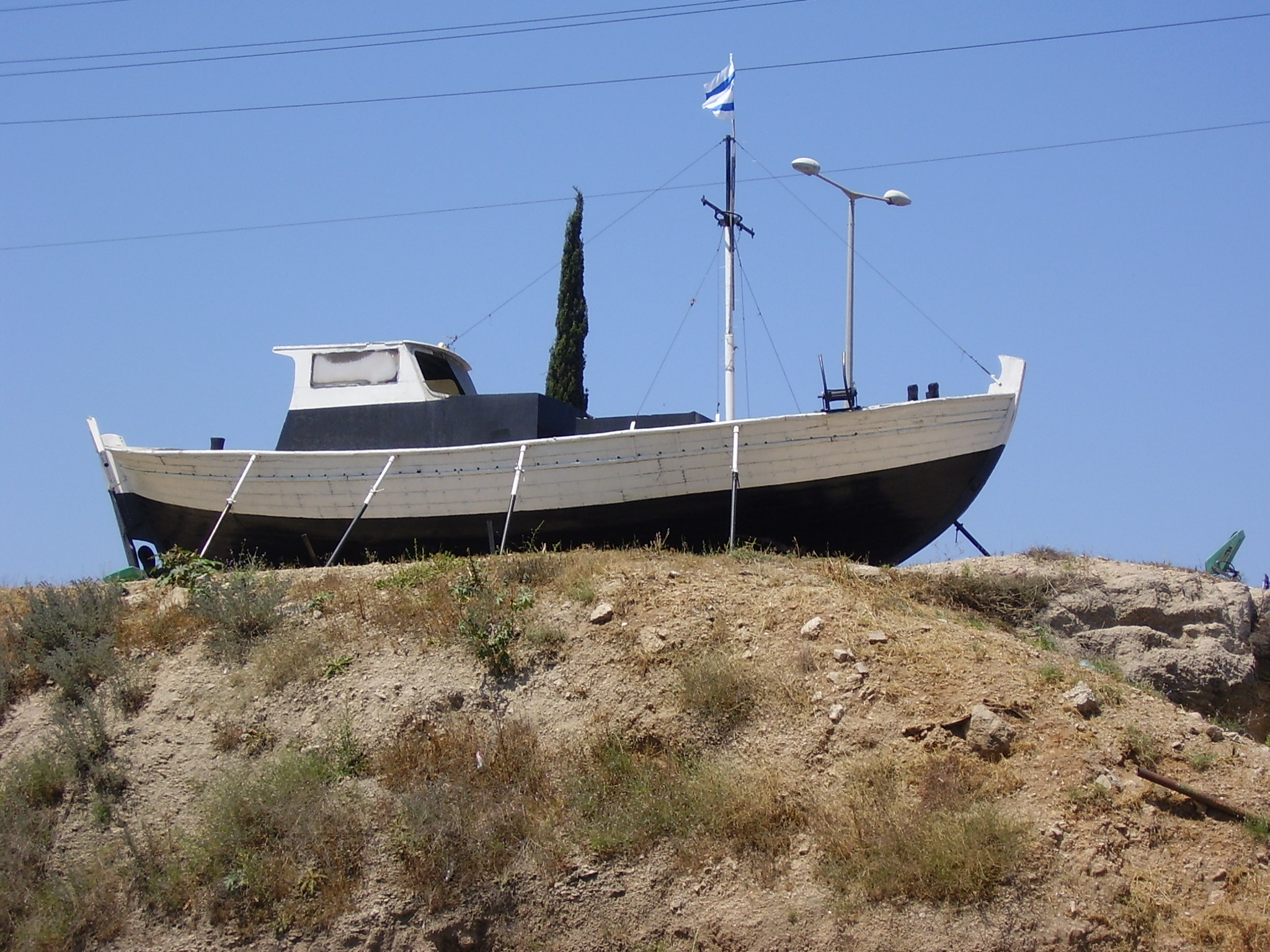 Immigrants memorial in Herzliya